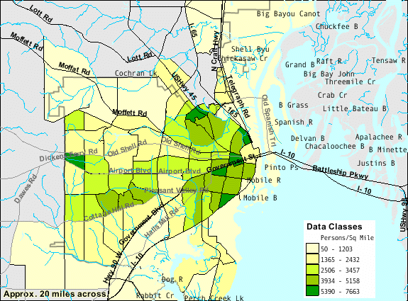 This map shows the city of Mobile, Alabama by average number of inhabitants per square mile of land in 2000. Edited by the uploader to merge map and legend into a single image.